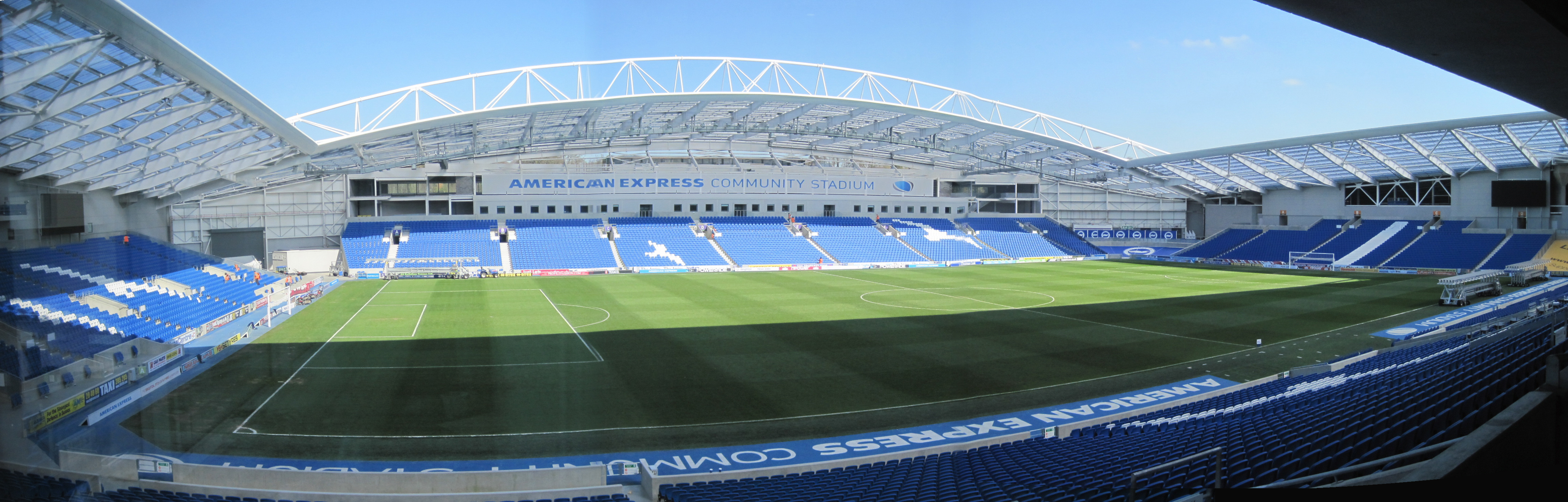 Amex Stadium Pitch panorama, near to Falmer, East Sussex, Great Britain.